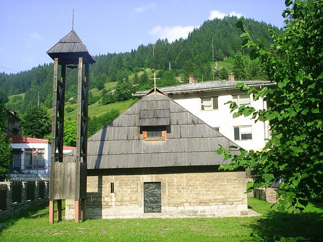 A wooden church in Vareš, BiH